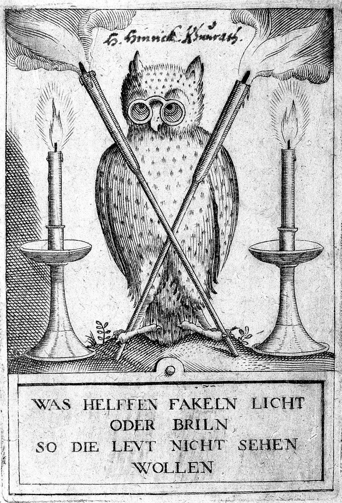 Autograph of H. Khunrath on a plate depicting an owl wearing glasses, holding two torches. Plate facing portrait of Khunrath (?). Rare Books